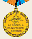 Medal «For service in Space armies» revers